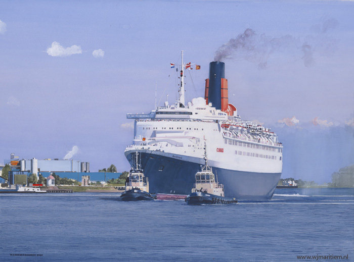 Queen Elizabeth 2 from Cunard at IJmuiden, Netherlands. Gouache painting by Dutch maritime artist W.J.Hoendervanger.